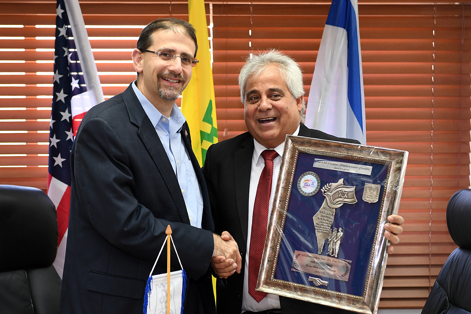 Ambassador Shapiro trip to Dimona began at Mayor's Benny Biton's office together with all municipal leaders. The Ambassador then visited Appelman School and was welcomed by Chief Rabbi of Dimona Yitzhak Elefant, Rabbi Aaron Moshe Shukrun, Principal Vered Sabo and proceeded to field questions from the students. Ambassador Shapiro moved on to tour Brenmiller Energy and learned about the innovative solar "parabolic" collection method, as well as the thermal energy storage and flexible generation. He then toured the Albaad paper hygiene product factory, and was briefed on the extent of their business in and with the United States and plans for expansion. The Ambassador enjoyed a working lunch with several local Mayors to discuss issues of local political import. Ambassador Shapiro was welcomed at two local schools who are the recipients of Jewish National Foundation (JNF) funding. Finally, he concluded his trip at the community of the African Hebrew Israelites, where he met with community leaders, answered questions and sampled their vegan food products.